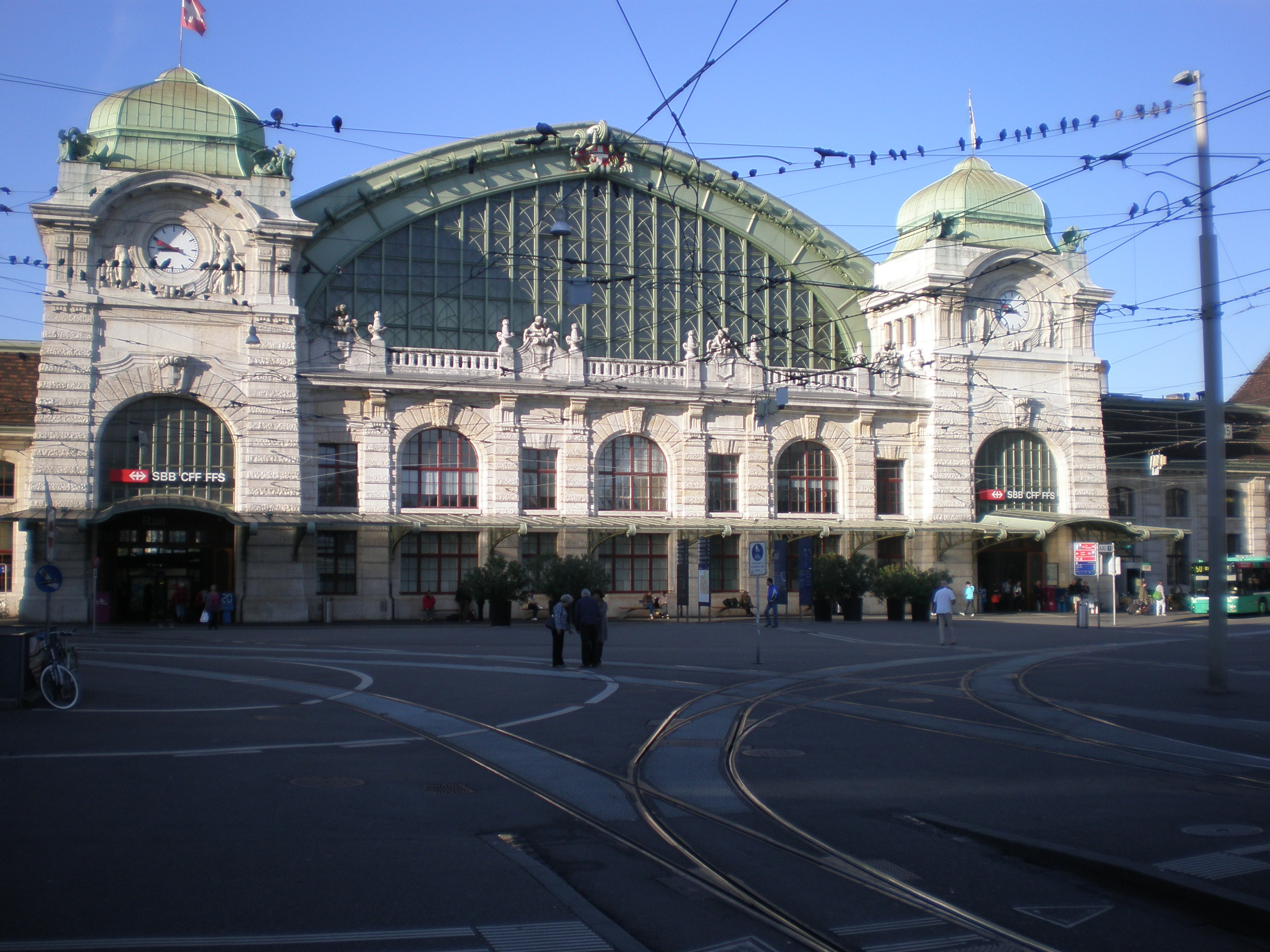 Bahnhof Basel SBB